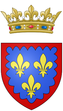 Coat of arms of Charles, Duke of Berry (1686-1714)